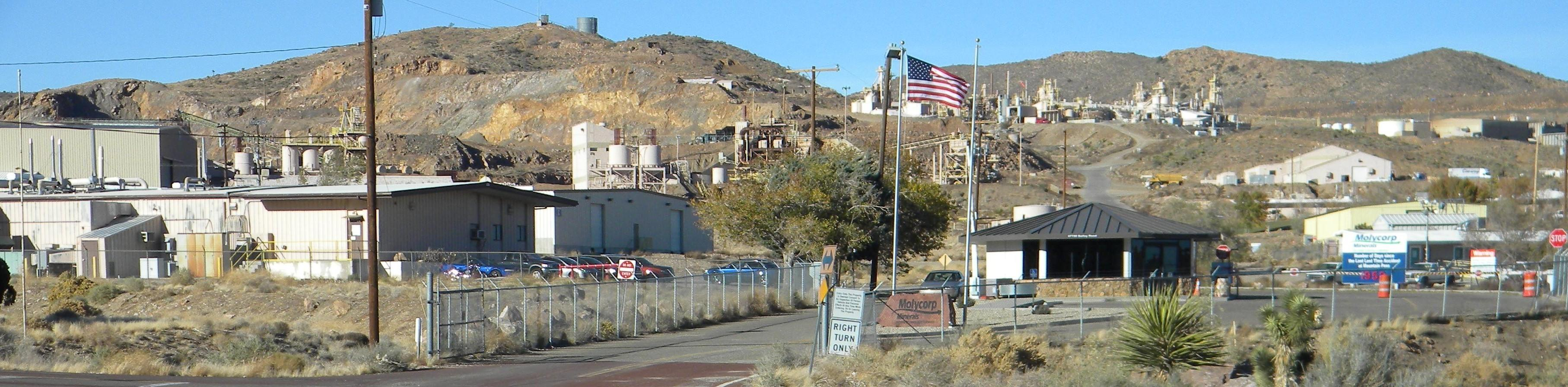 Molycorp rare-earth mine and processing facilities - Mountain Pass, California, USA